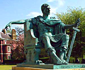 Statue of the roman emperor Constantine I, erected in 1998 at York Minster